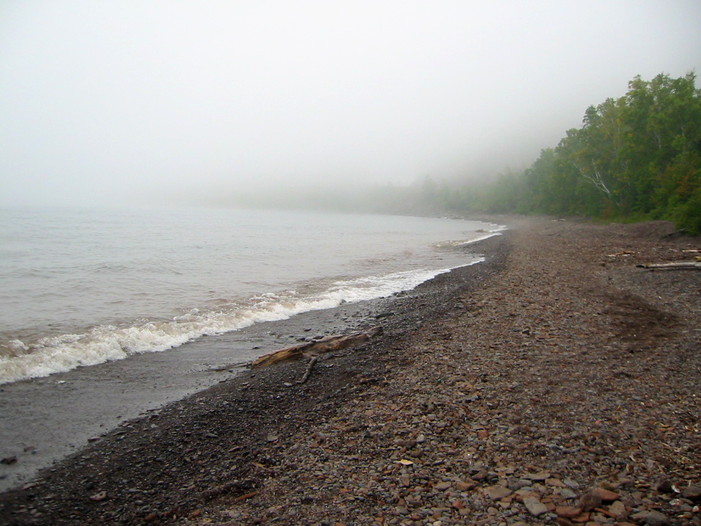 Lake Superior shore outside Cascade River State Park